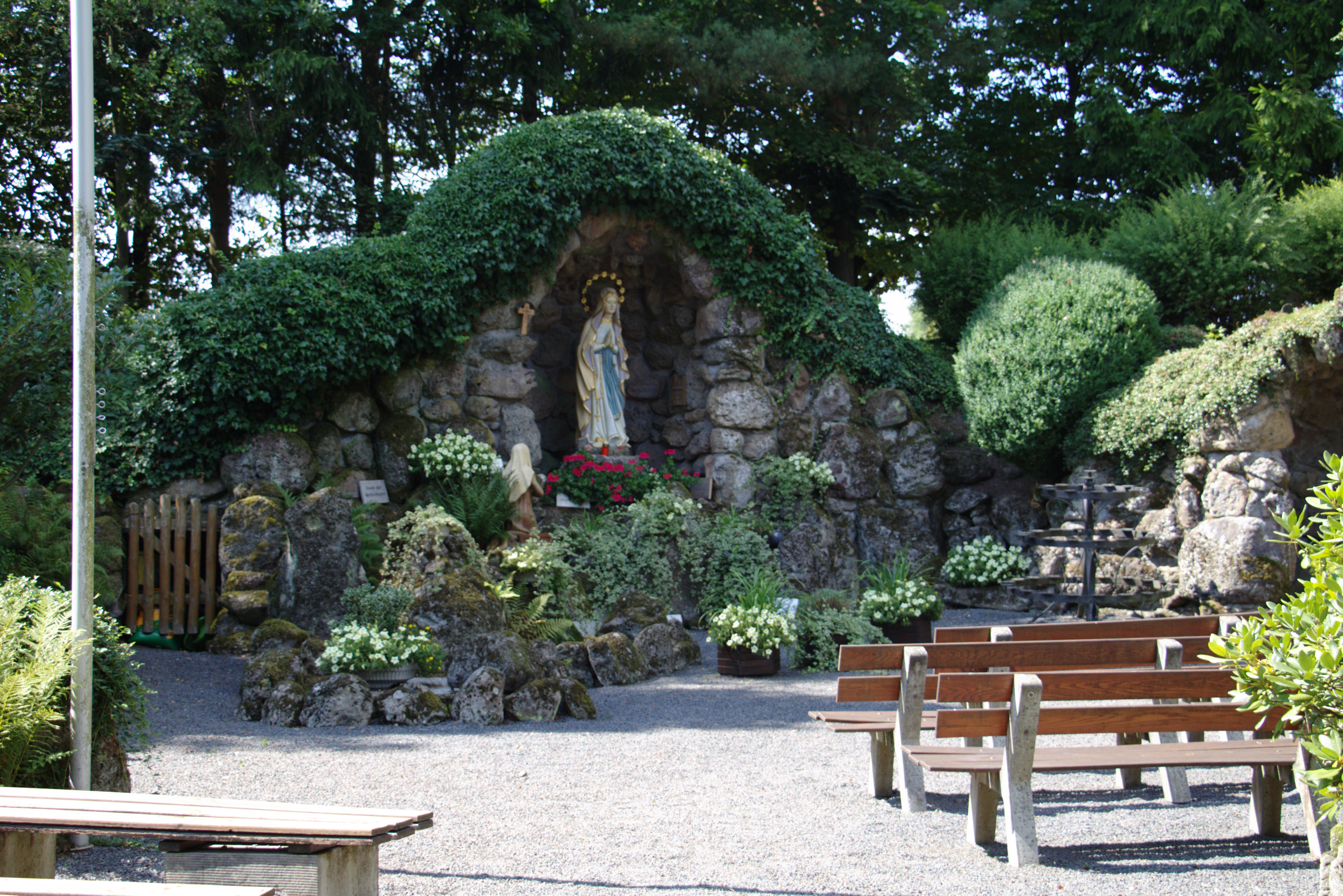 Lourdes Grotto in Rommerz, Neuhof, Hesse, Germany